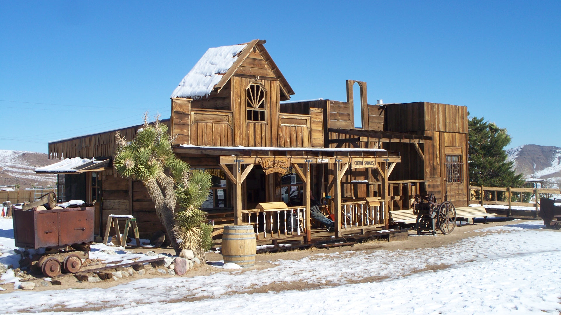 "Chapparosa Saddlery," a working saddlery in Pioneertown, California USA which was once part of a permanent motion picture set